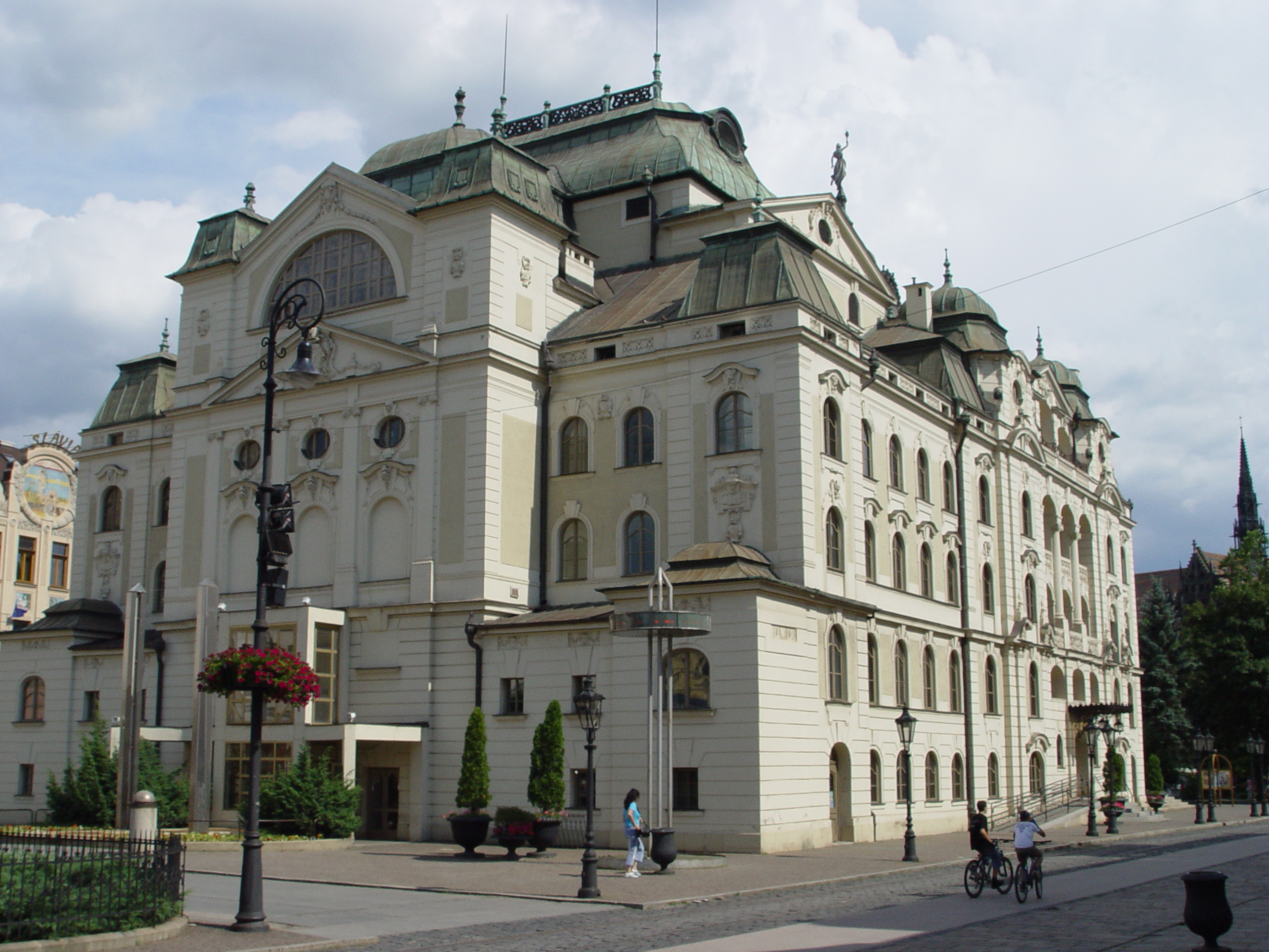 Slovakia, Košice, State Theater on Main Street